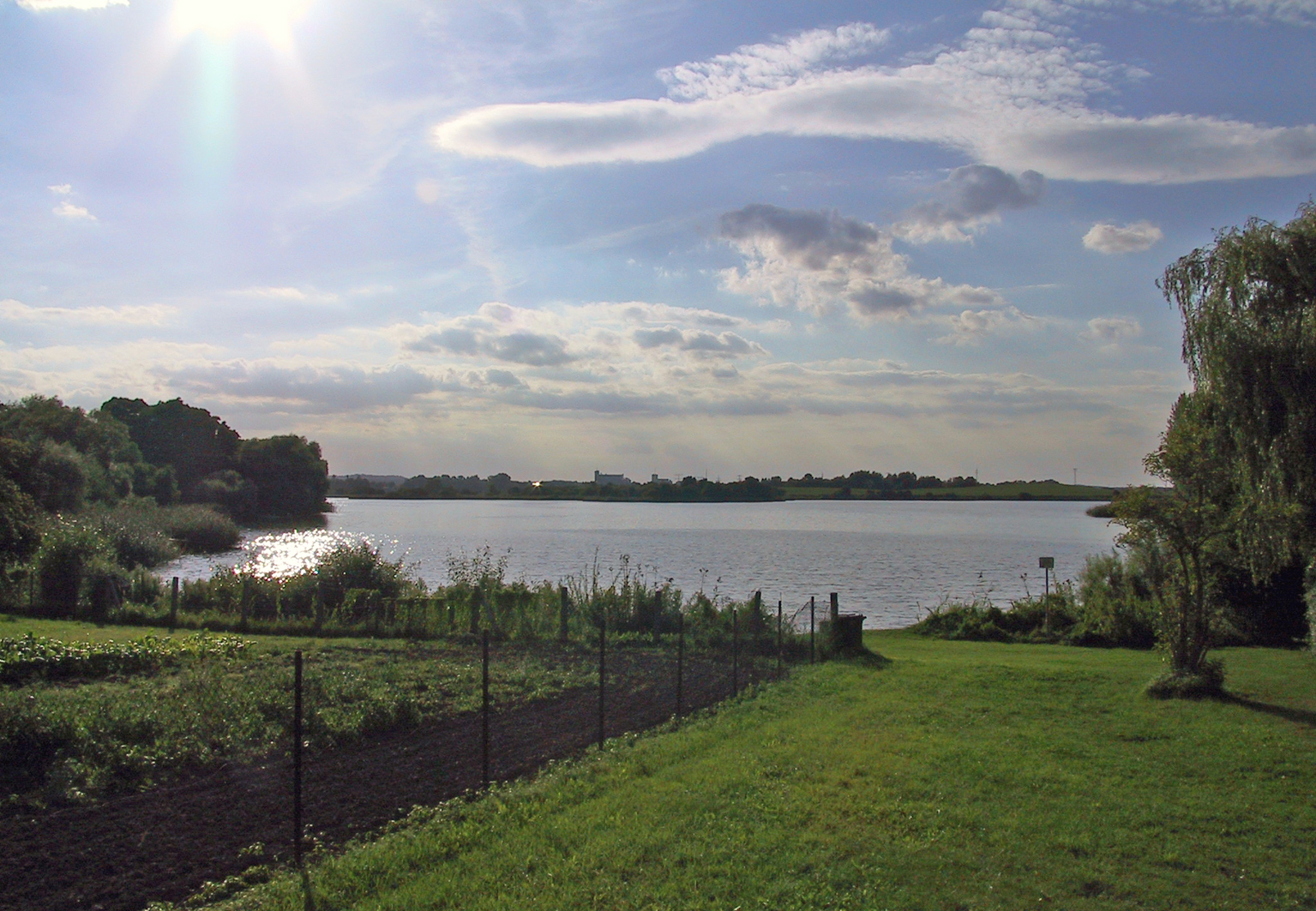 The lake Mündesee in Angermünde/Dobberzin.